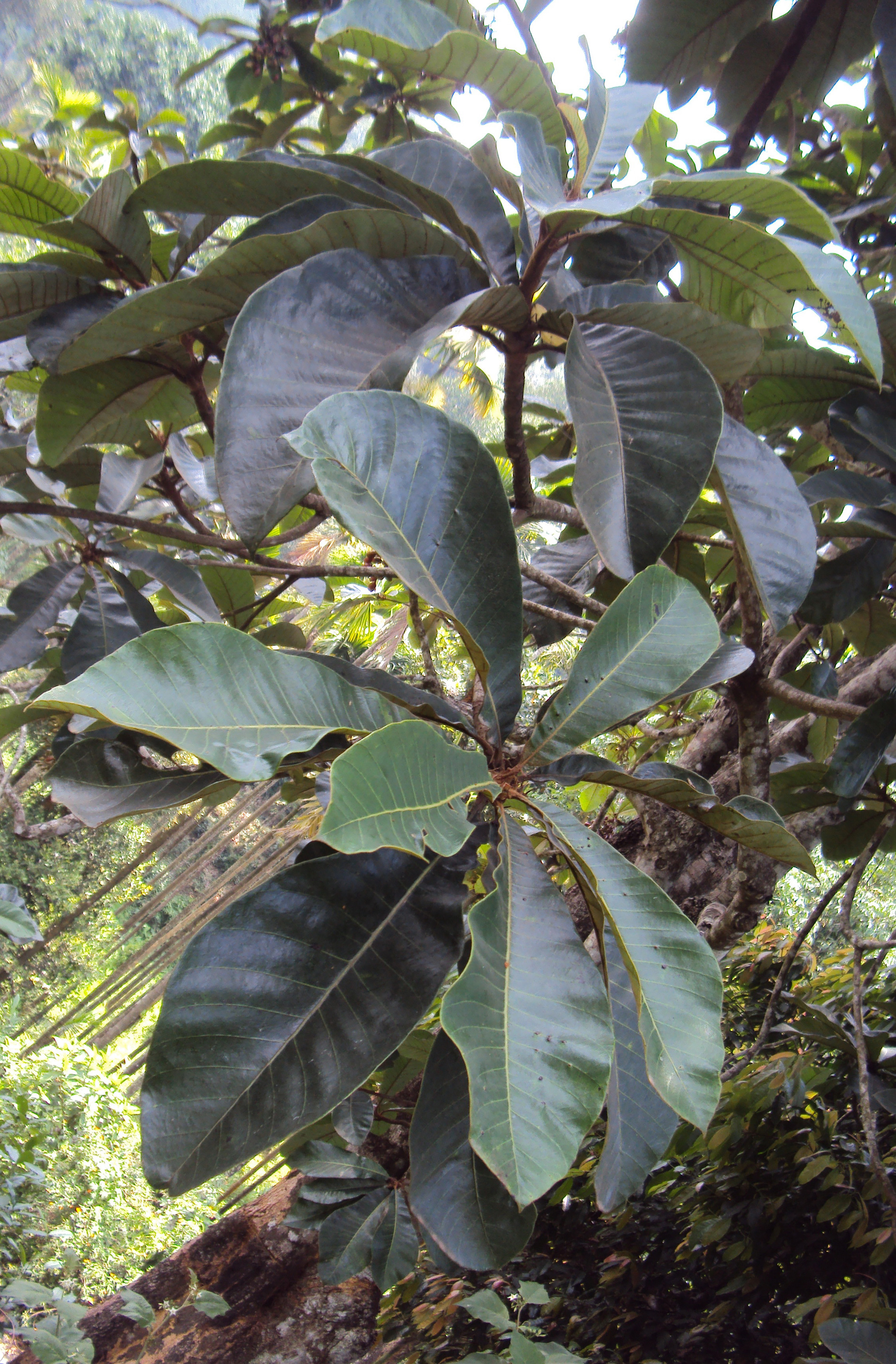 Holigarna grahamii